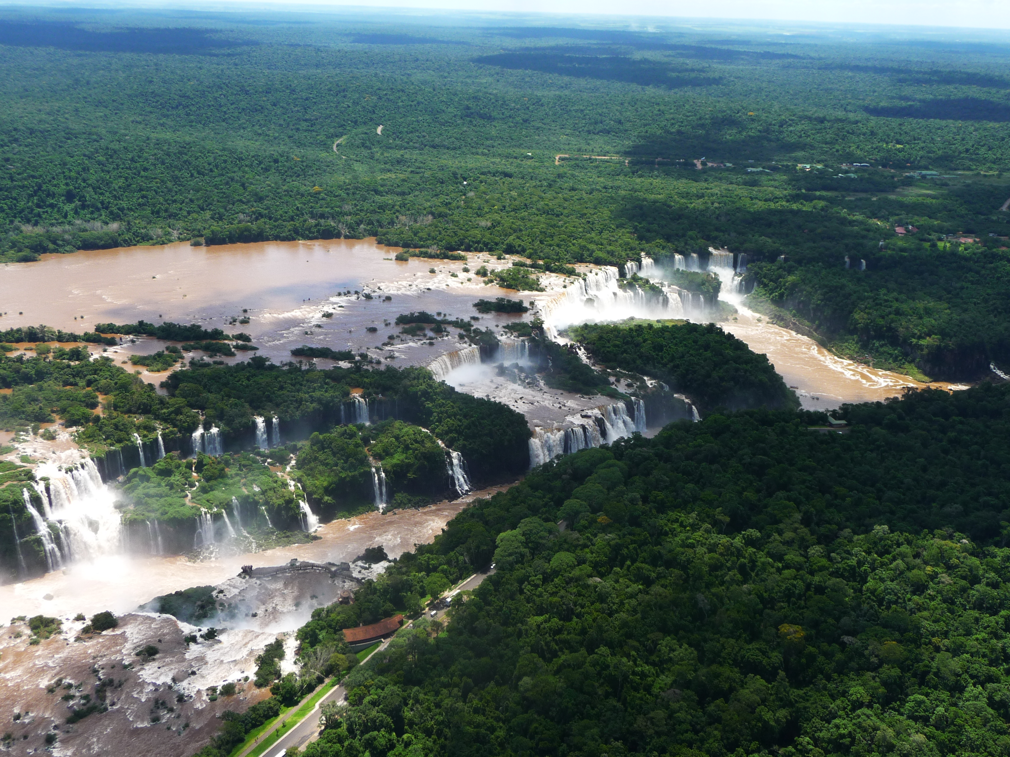 Iguazu Falls, in Misiones (Argentina).